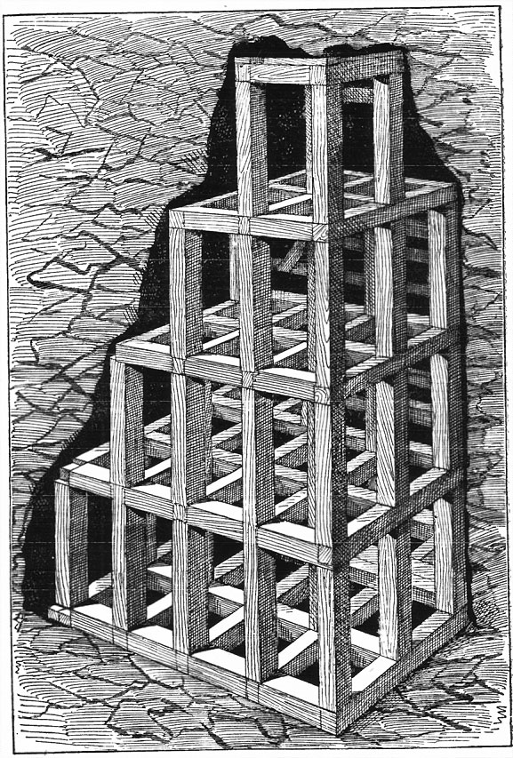 Square-set timbering as used in the Comstock mines, 1877. This method of timbering was invented by Philip Deidesheimer.